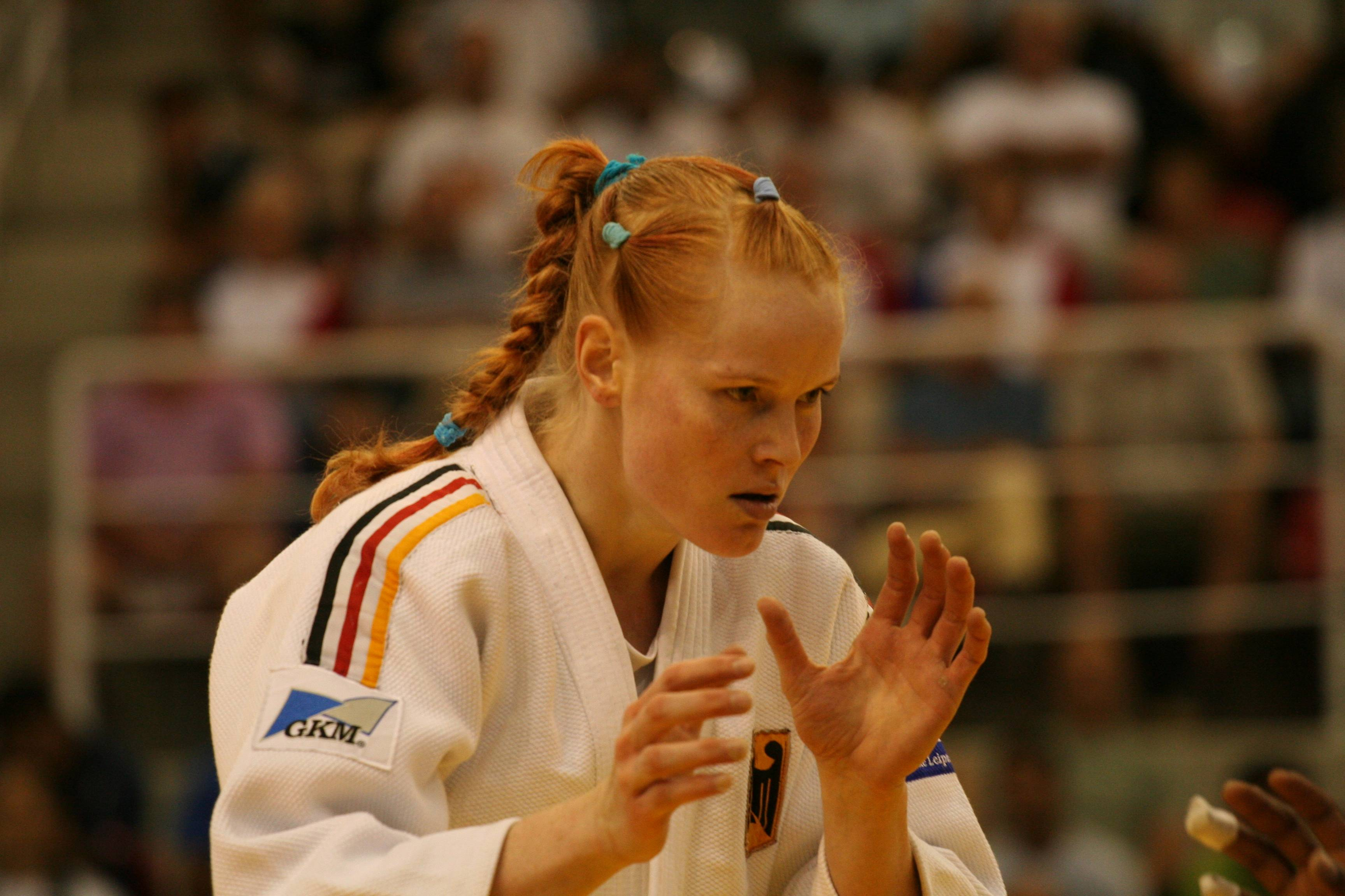 Annett Boehm Judo World Championship in Brazil 2007